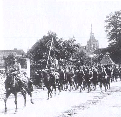 Death battalion of 3rd Caucasus corp of Russian army in advance. WWI. Caucasus front. 1917.